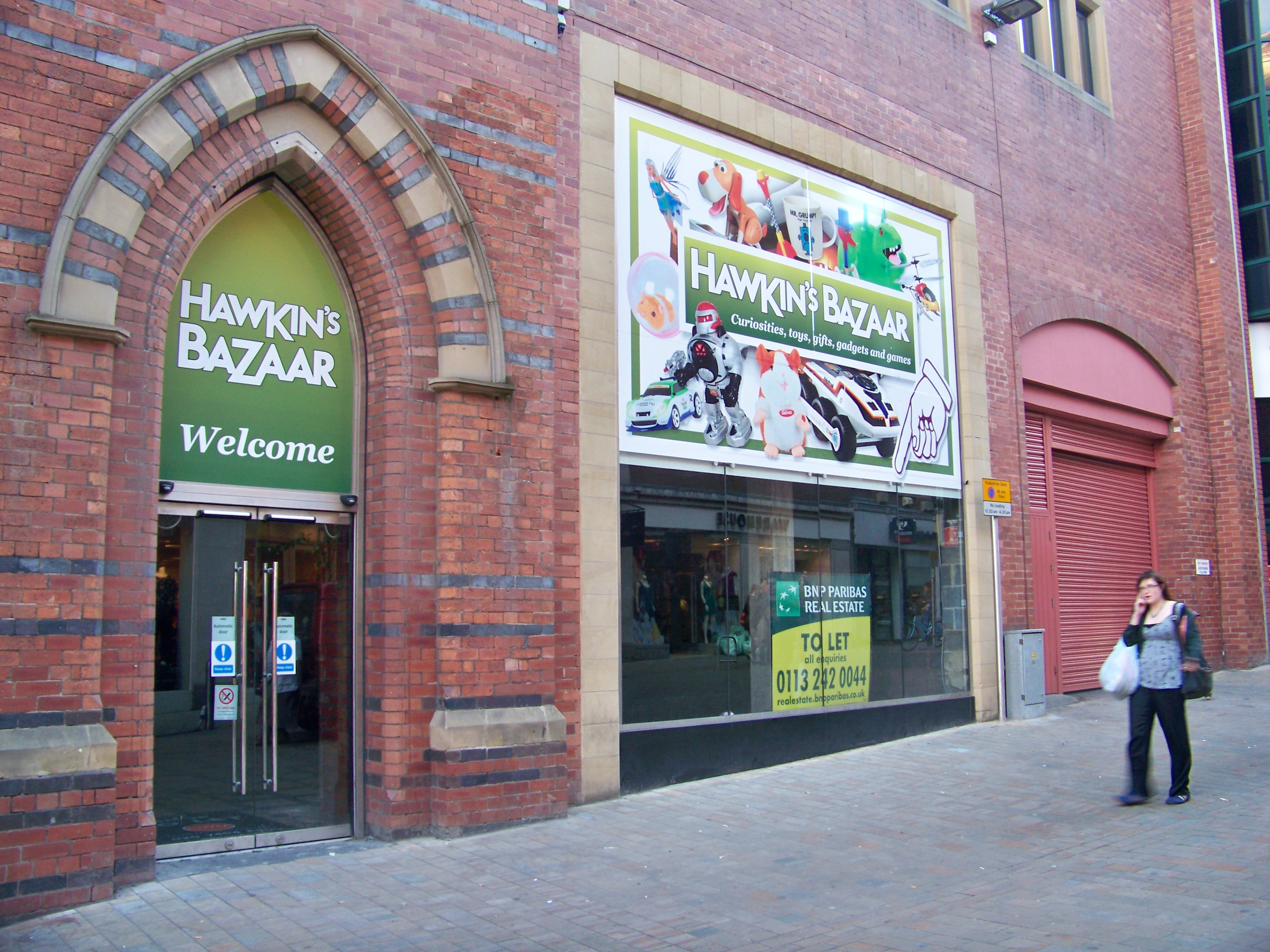 Carphone Warehouse on Briggate in Leeds, West Yorkshire. Taken on the afternoon of Monday the 11th of April 2011.